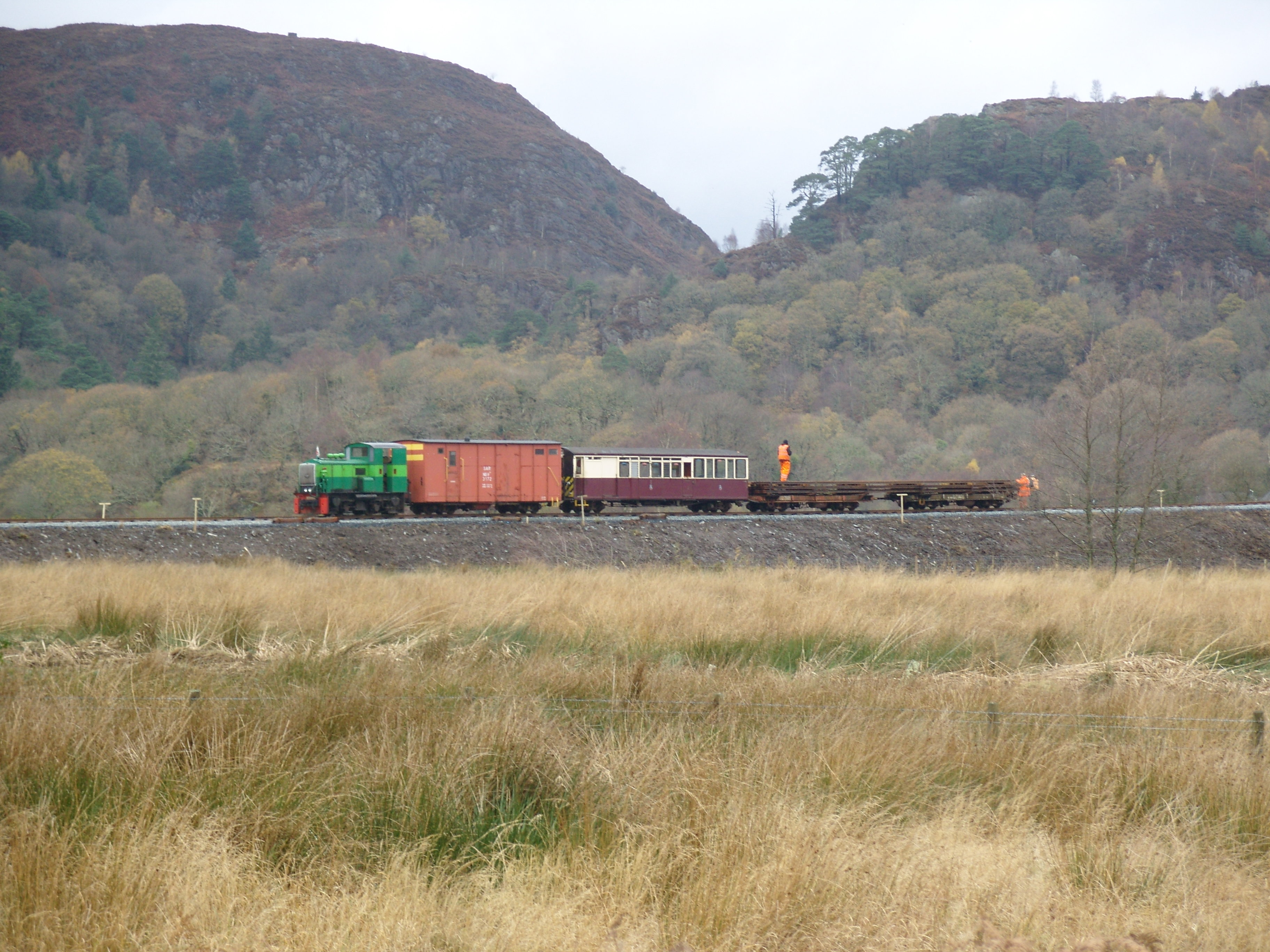 Welsh Highland Railway construction train with diesel engine Upnor Castle at Nantmor Bank.